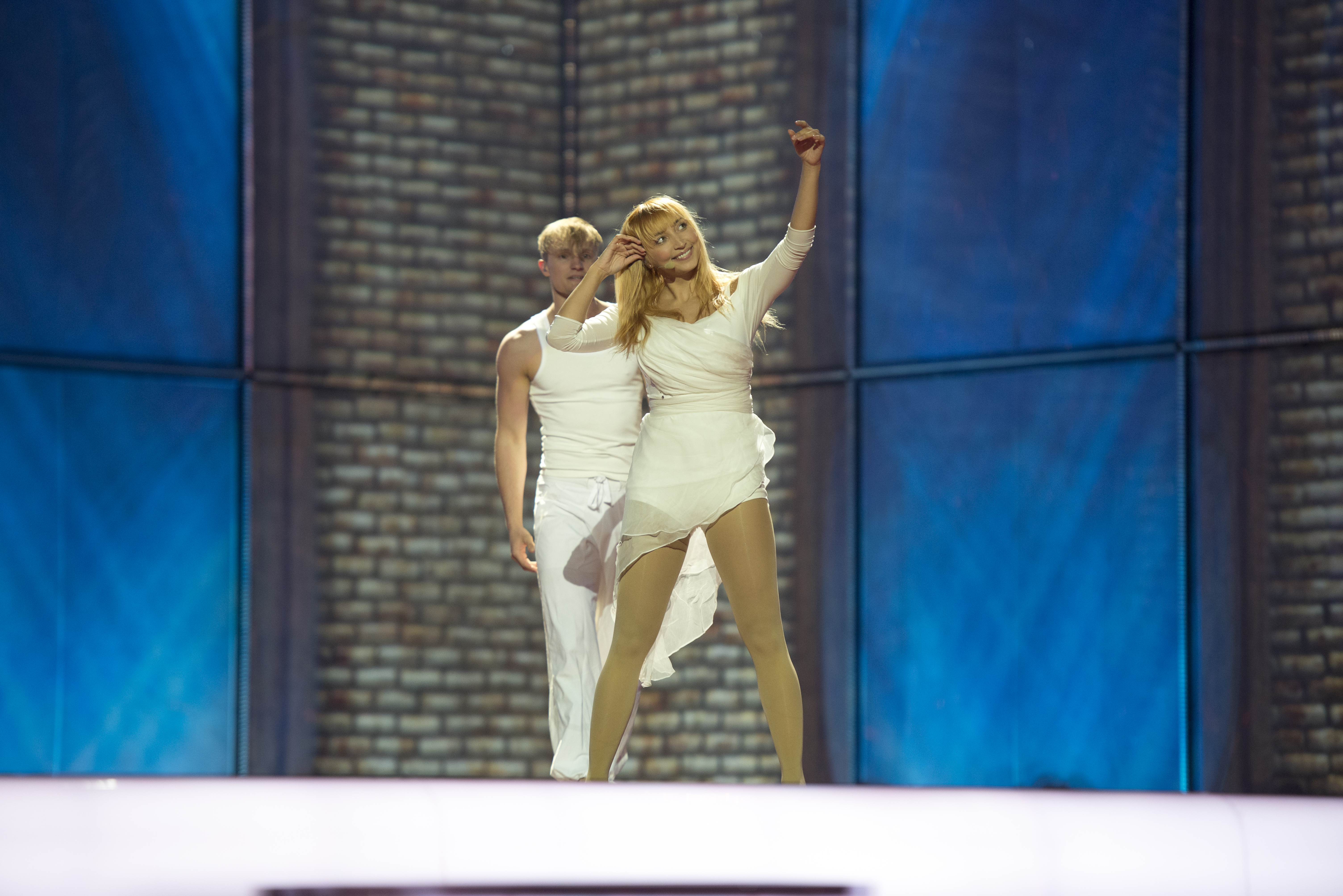 Tanja Mihhailova representing Estonia with the song "Amazing" during the first dress rehearsal of the first semi final of the Eurovision Song Contest 2014 Copenhagen. (Help translate this text)